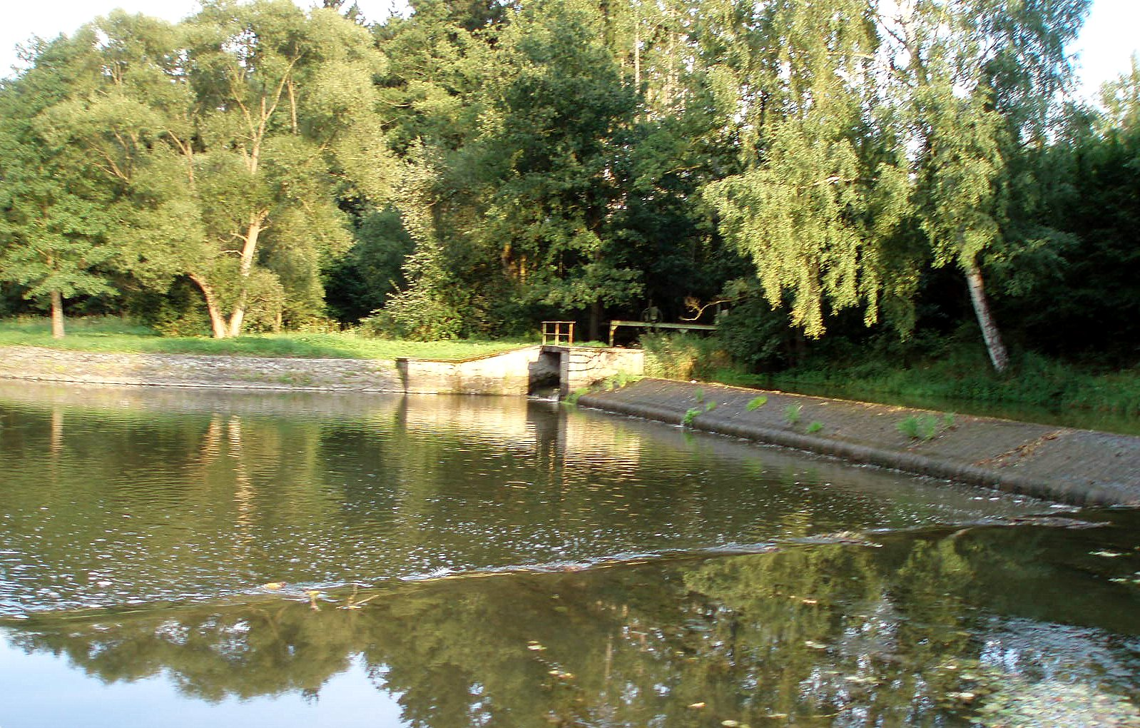 Úhlavka River in Kladruby, Tachov District, Czech Republic.